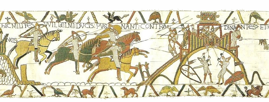 Bayeux Tapestry Scene 19